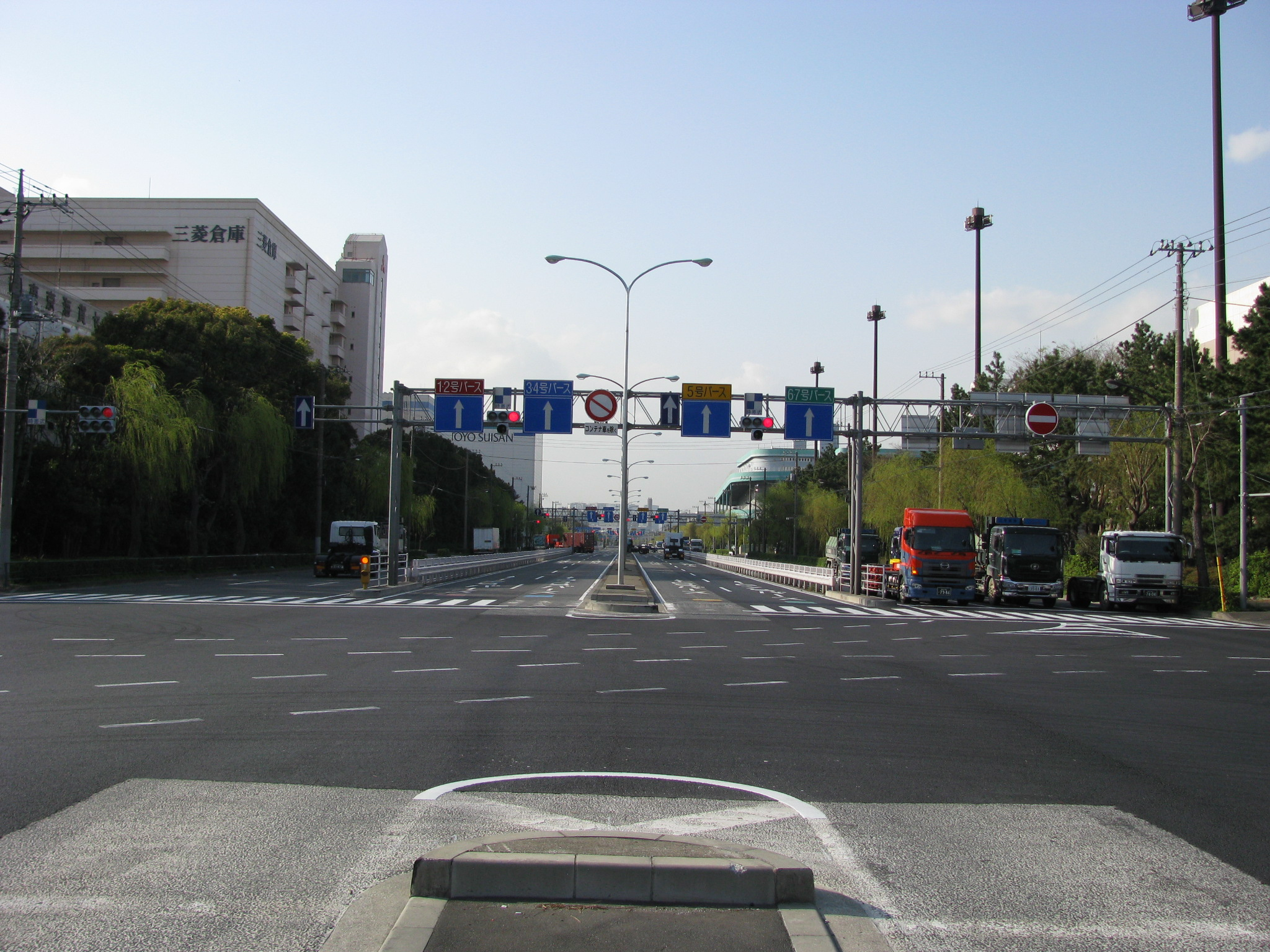 The Tokyo Prefectural Route 316. This place is Tōkai in Ōta, Tokyo, Japan.